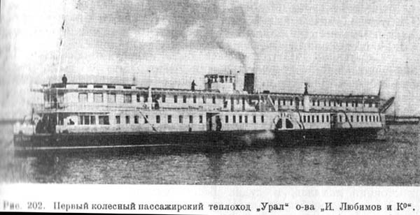 Paddle diesel ship Ural, one of the first diesel ships in the world. She was build in 1911 and burned out in 1916.